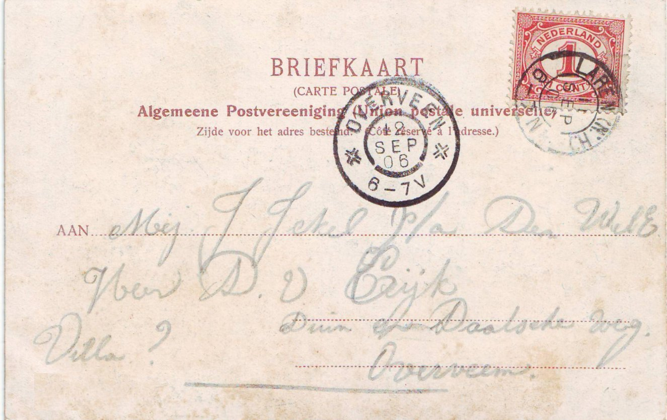 Postcard from Laren to Overveen, 11 September 1906. Arrived 12 September 1906.